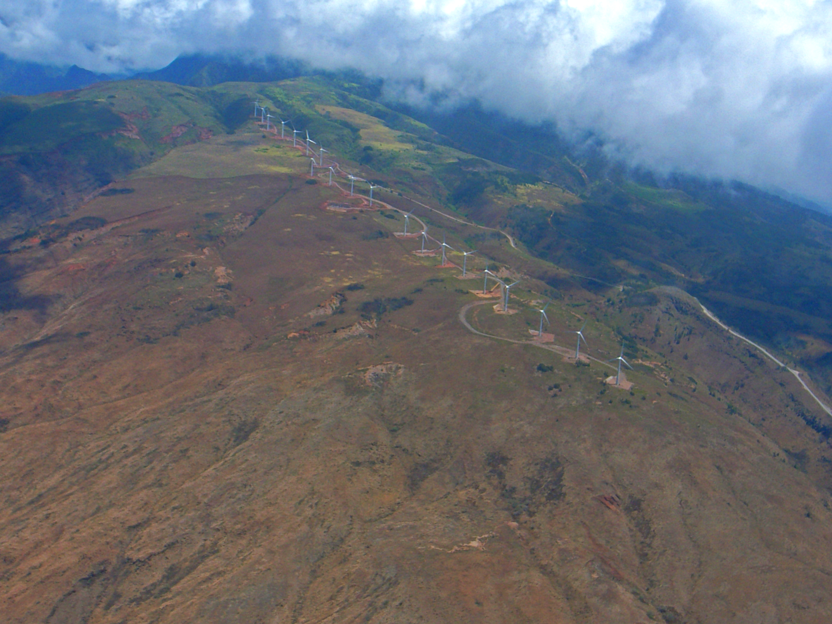 Kaheawa Wind Farm near Maalaea, Maui, with 20 GE Energy 1.5 MW wind turbines, for a total nameplate capacity of 30 MW; commissioned in 2006.